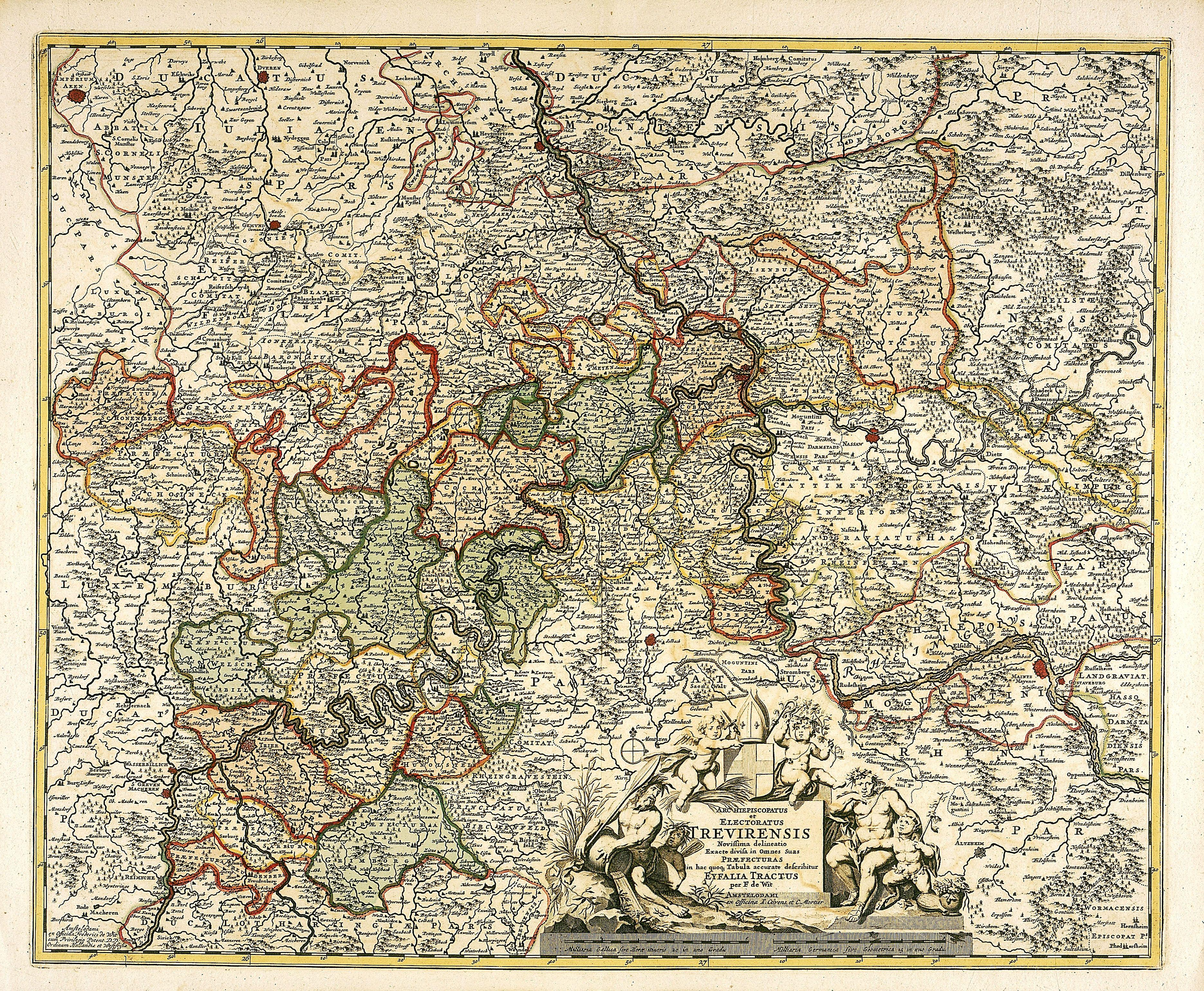 Archiepiscopatus et electoratus Trevirensis [Kartenmaterial] : novissima delineatio exacte divisa in omnes suas præfecturas in hac quoq[ue] tabula accurate describiturs Eyfalia tractus : cum privilegio potent. D. D. ordinum Hollandiæ et Westfrisiæ / per F. de Wit. Description from web site: ([1]) Titel Archiepiscopatus et electoratus Trevirensis [Kartenmaterial] : novissima delineatio exacte divisa in omnes suas præfecturas in hac quoq[ue] tabula accurate describiturs Eyfalia tractus : cum privilegio potent. D. D. ordinum Hollandiæ et Westfrisiæ / per F. de Wit Math. Daten [Ca. 1:310 000] Impressum Amstelodami [Amsterdam] : ex officina I. Cóvens et C. Mortier, [zwischen 1721 und 1778] Umfang 1 Karte : Kupferdruck ; 47 x 58 cm Reihe (Gallia belgica rhenana, pars media ; Falz 20) Gehe zu Gallia belgica rhenana, pars media Notiz Titel- und Massstabskartusche unten Mitte Alter Erscheinungsvermerk links unten: "ex officina Frederici de Wit" Druckort Amsterdam Anm. zum Exemplar Koloriert